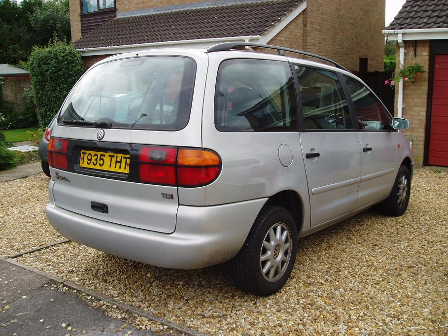 VW Sharan 1.9 TDi Carat 1999